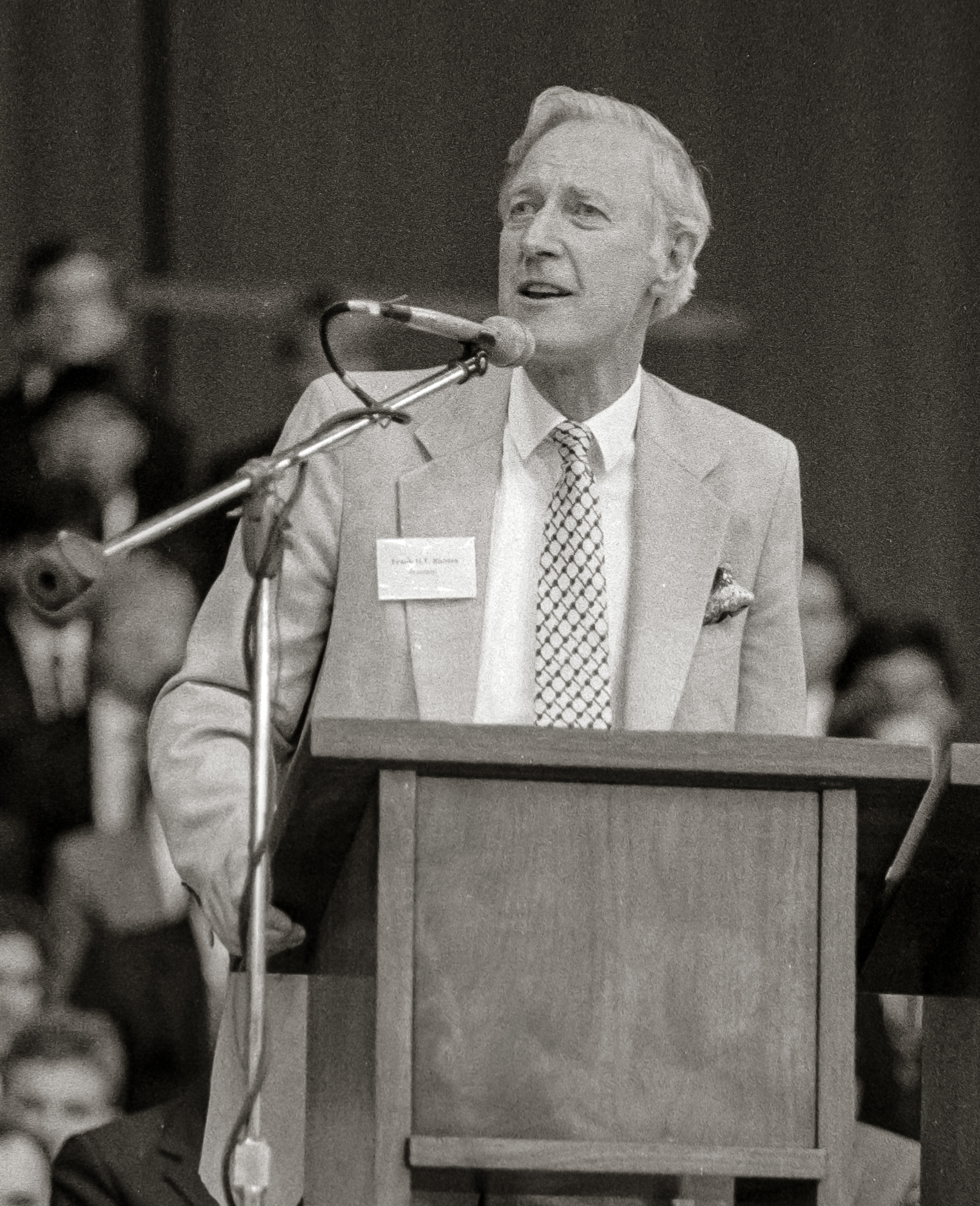 Frank H.T. Rhodes speaks at Freshman orientation, probably August 1988.